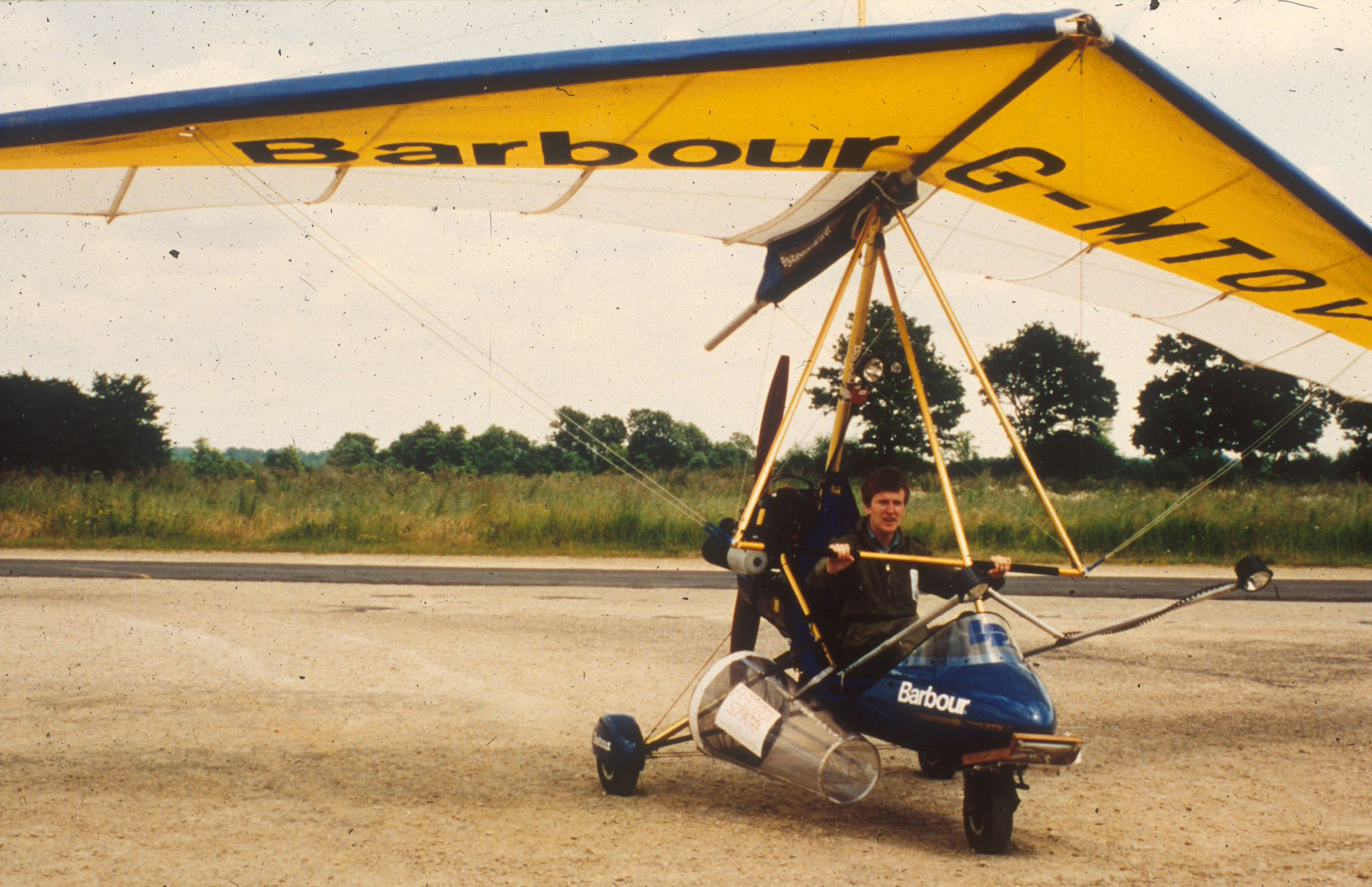 Image of a microlight aircraft modified for collecting moths and other insects over forests